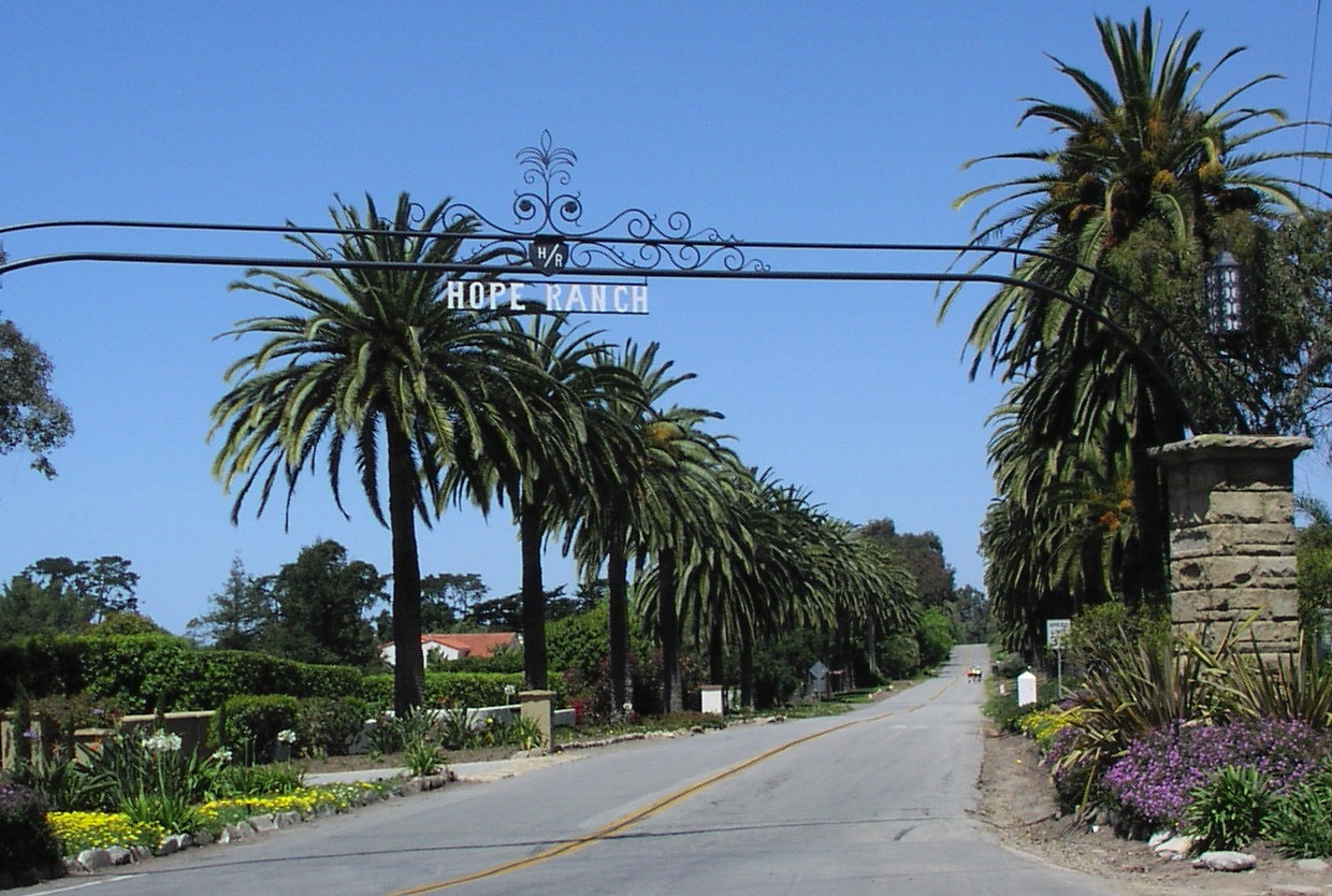 Picture of eastern entrance to Hope Ranch, May 27, 2006